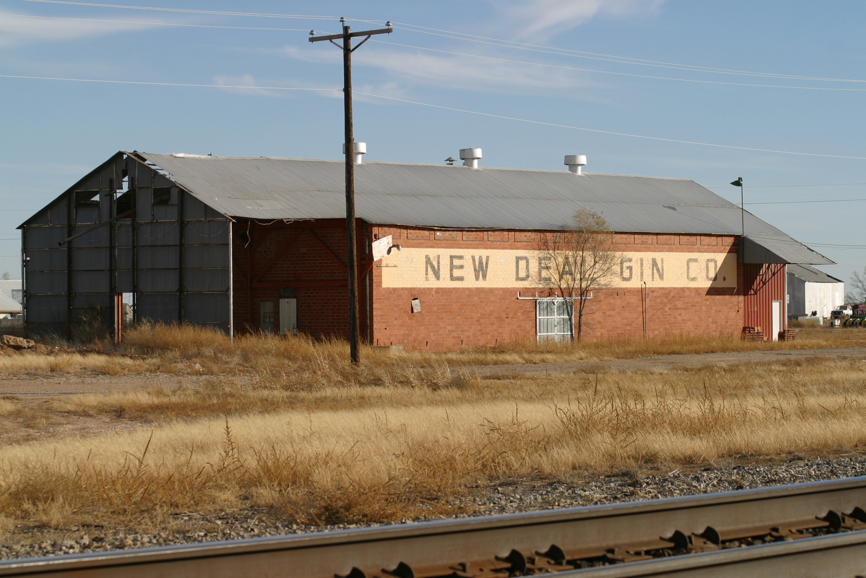 Abandoned cotton gin, New Deal, Texas.